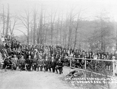 Visitors and delegates to the First General Council, Hot Springs, Arkansas, April 2-12, 1914. Photo taken on last day of the convention. Executive presbytery are kneeling in the front row (l-r): J. W. Welch, M. M. Pinson, T. K. Leonard, J. Roswell Flower, Cyrus Fockler, Howard A. Goss, E. N. Bell, and Daniel C. O. Opperman.